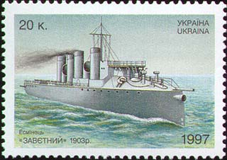 Stamp of Ukraine